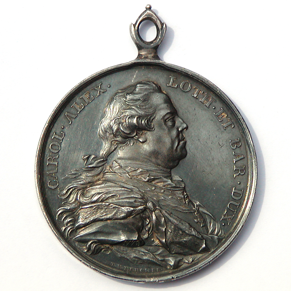 Medal made by Theodoor Victor van Berckel, chief engraver at the Brussels Mint. Medal made for the Academy of fine Arts in Brussels (1778). Portrait of Duke Charles Alexandre de Lorraine, Governer of the Austrian Netherlands. Size 47 mm round, material silver.